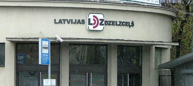 Central Railway Station in Riga. Logo LDz.